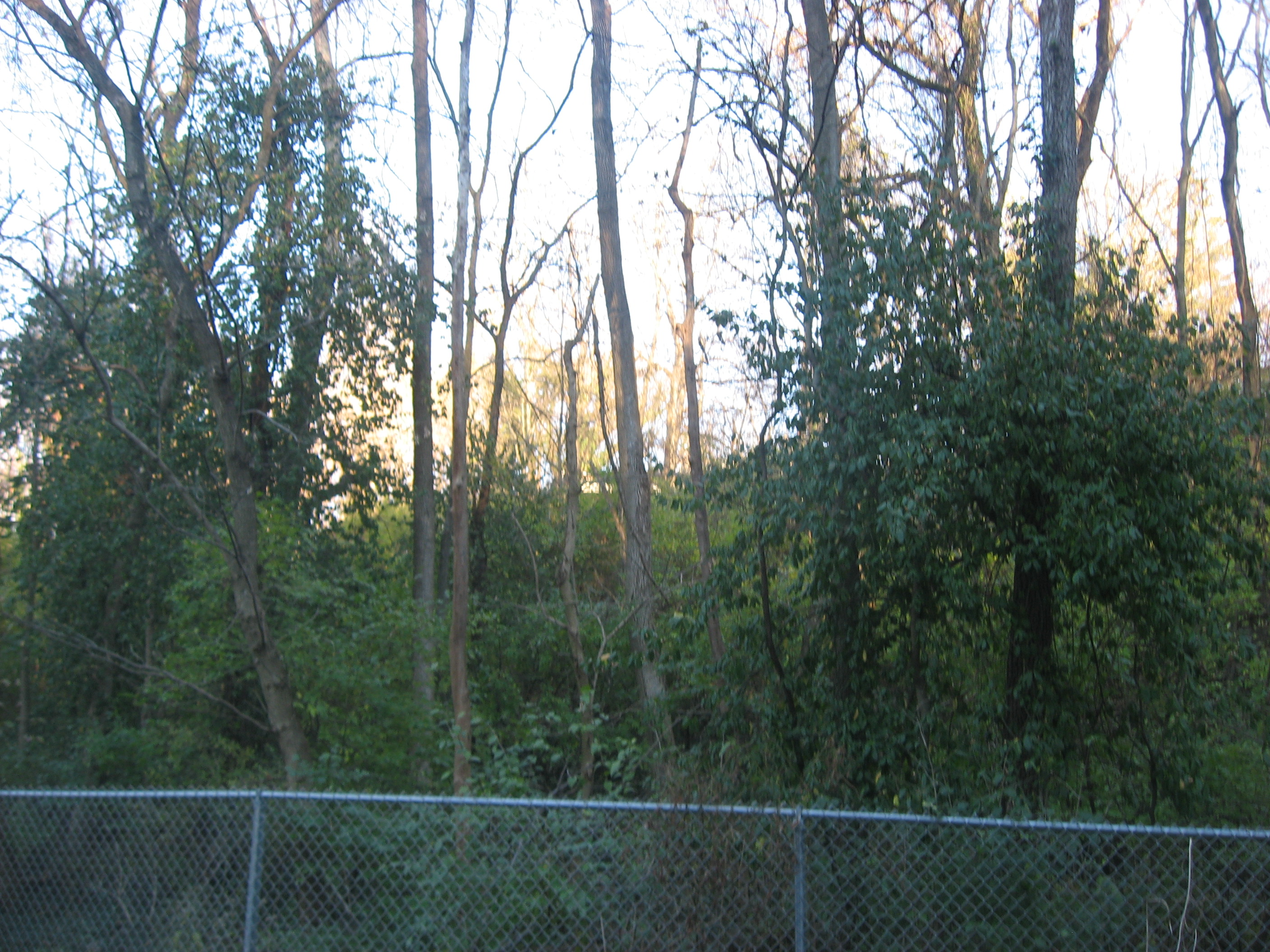 View through the trees of the Cyrus Broadwell House, located at 3882 Mount Carmel Road east of Newtown in Anderson Township, Hamilton County, Ohio, United States. Built in 1820, it is listed on the National Register of Historic Places. The house is the vague blur in the middle; a better view is not possible, due to the house's secluded wooded location, and the bends in its long driveway prevent views from the end of the driveway.